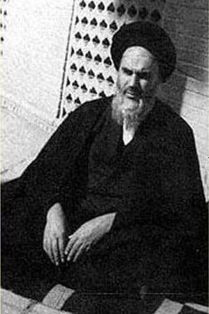 Ruhollah Khomeini